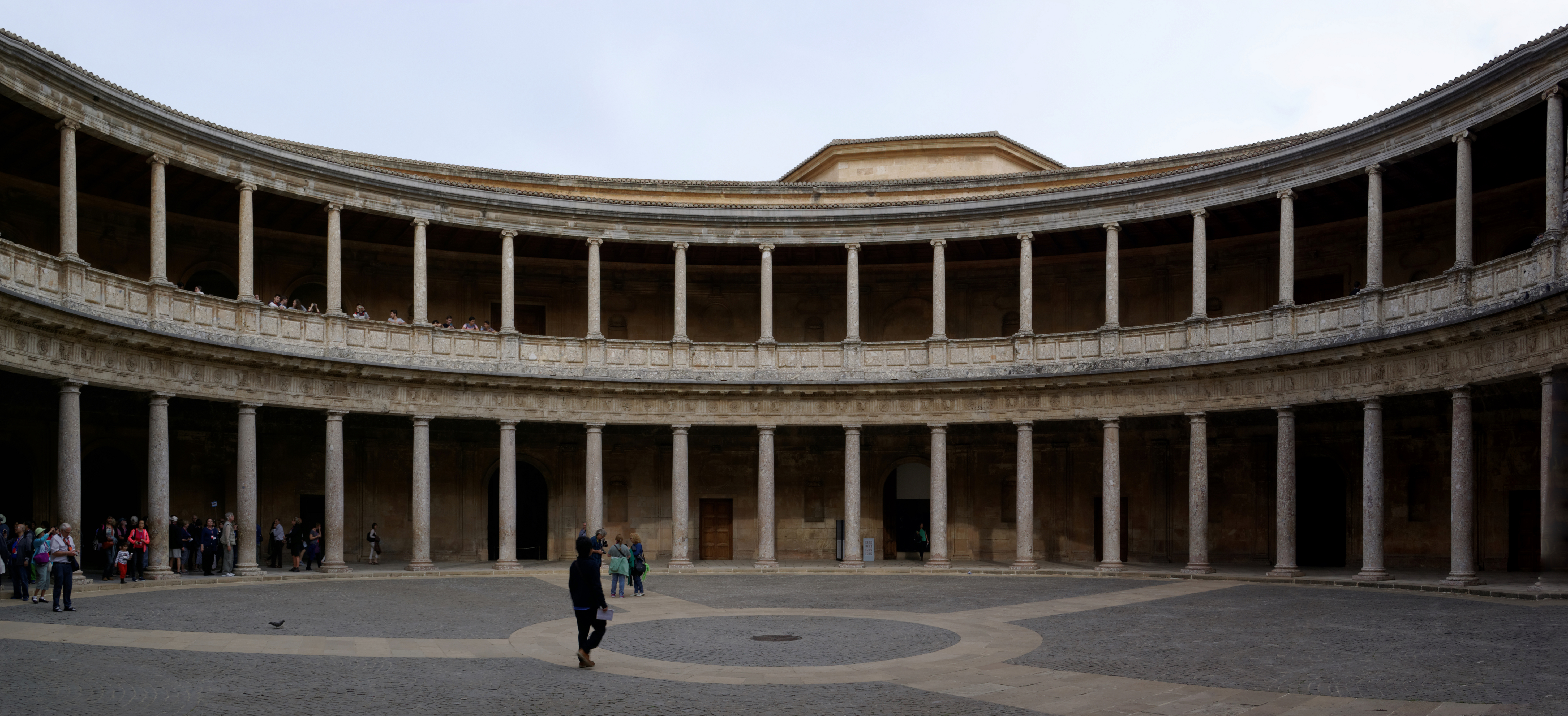 Spain, Granada, Palace of Charles V.